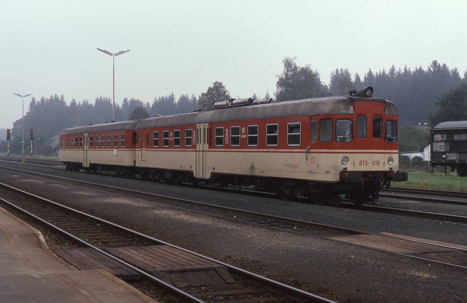 A visit to the secondary cross-border route from Bleiburg in Austria to Maribor was made on 24 September 1994. As most of the route is within Slovenia, SŽ DMUs are the normal motive power although loco hauled trains have worked on occasions. Seen at Bleiburg is 813.018 & 814.018 on train 4007, 09:58 Bleiburg to Maribor.